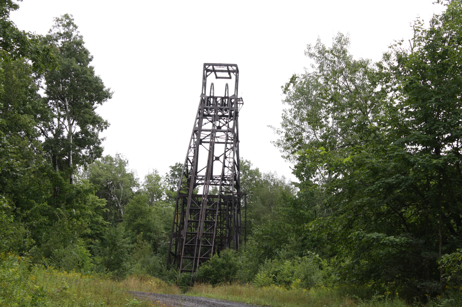 Plummer Mine Headframe, the last remaining mining headframe in Wisconsin, listed on the National Register of Historic Places.